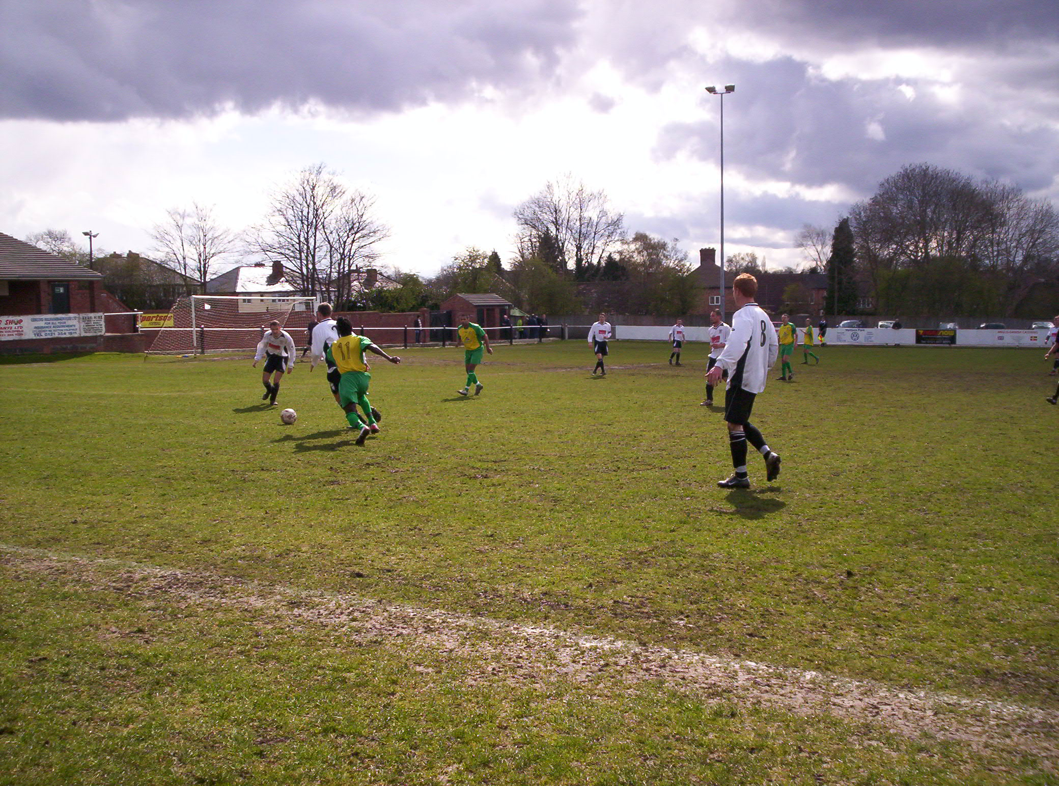 Boldmere St Michaels F.C. against Barwell F.C. in April 2008, photographed by me